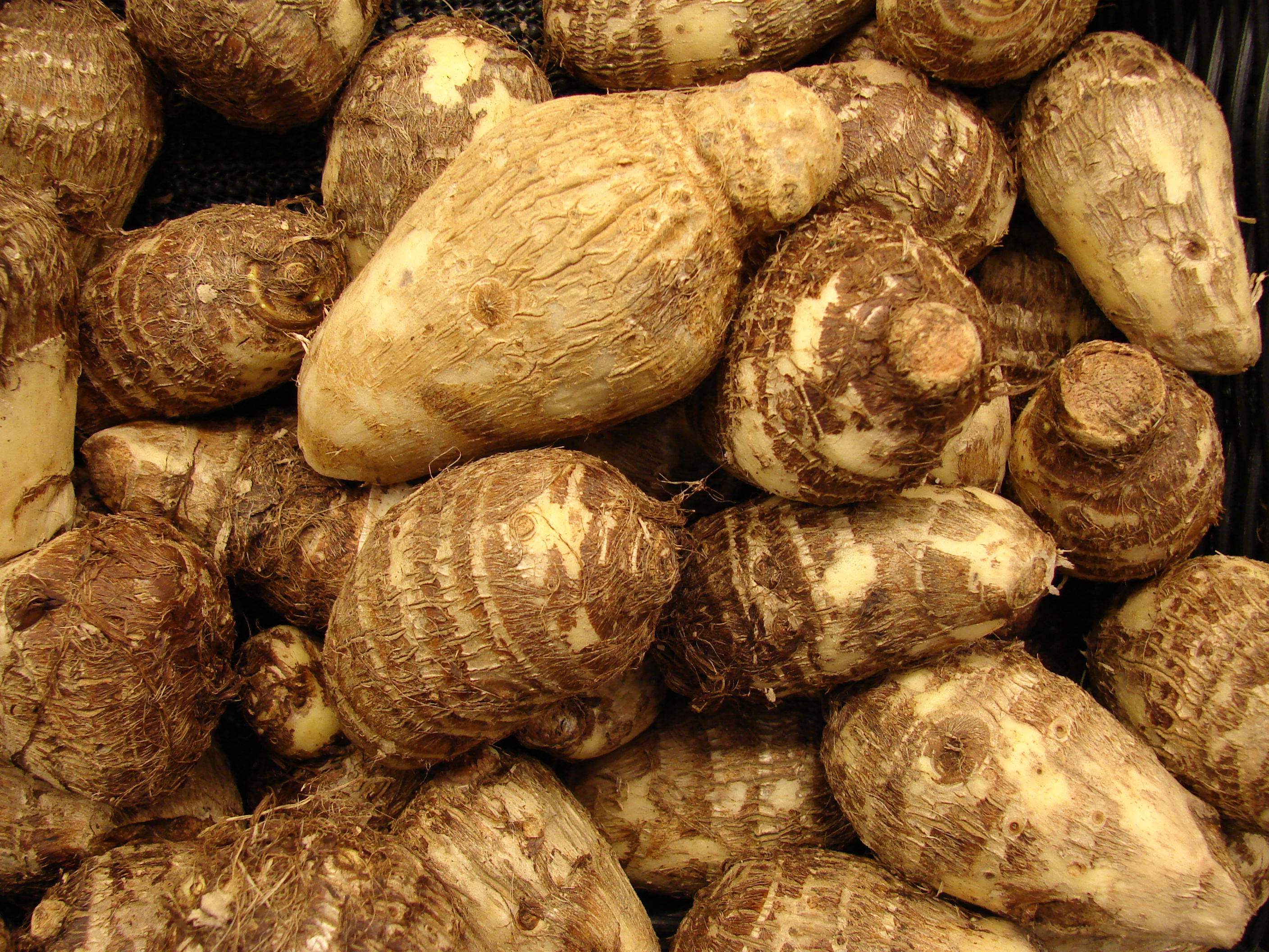 Colocasia esculenta (dasheen). Location: Maui, Foodland Pukalani